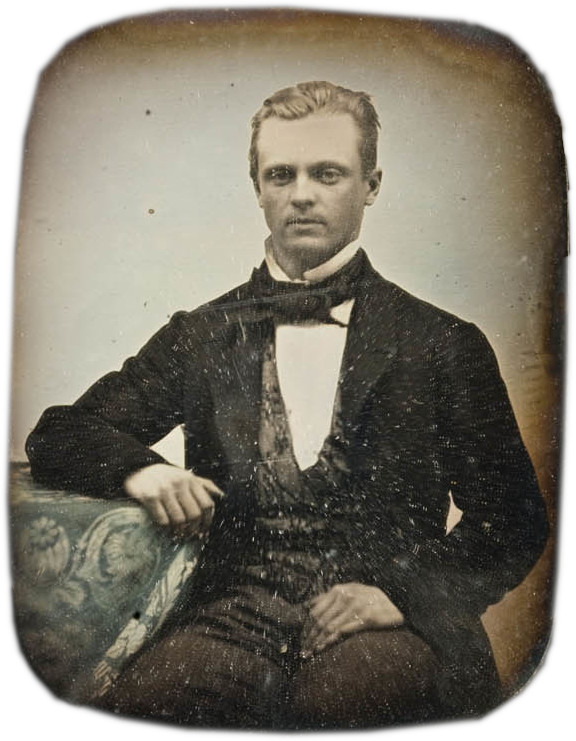 Depicted person: Frithiof Holmgren, PROFESSOR